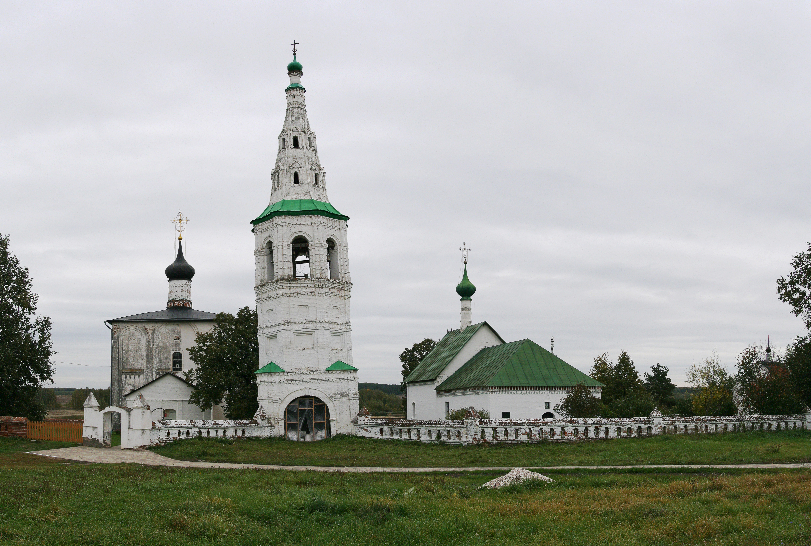 The Boris and Gleb monastery in Kideksha, Vladimir oblast